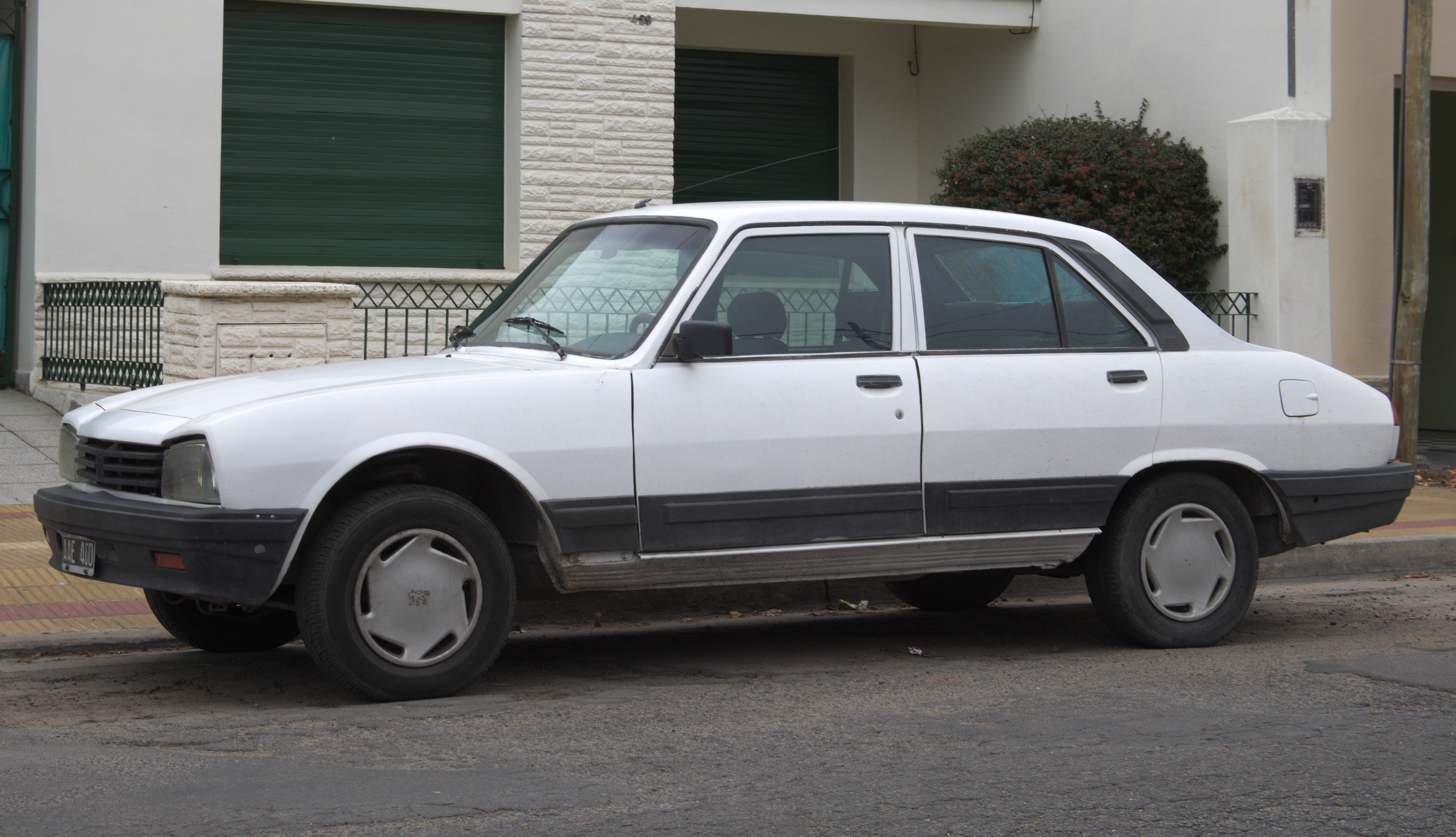 Peugeot 504 parked in Tandil, Argentina